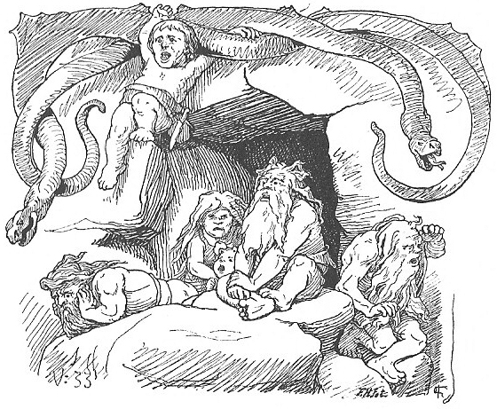 Dwarves before their stone doors during the onset of Ragnarök as attested in Völuspá. Image appears as an illustration for Völuspá. No caption or title given in work.